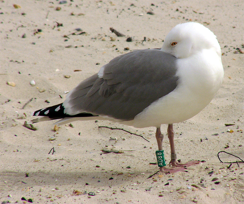 Herring Gull български: Сребриста чайка brezhoneg: Gouelan gris čeština: Racek stříbřitý